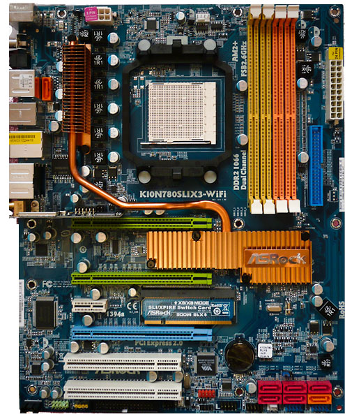 ASRock K10N780SLI3X-WIFI -motherboard for AM2+ socket processors.